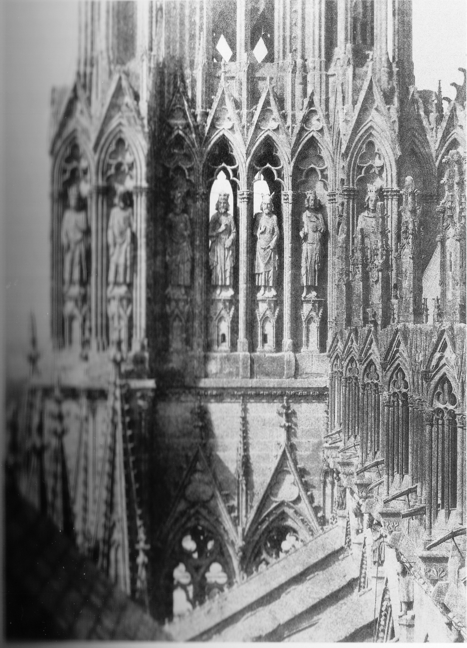 Henri le Secq: part of the "gallery of kings" on eastside of the southwestern tower of Reims cathedral, 1851.